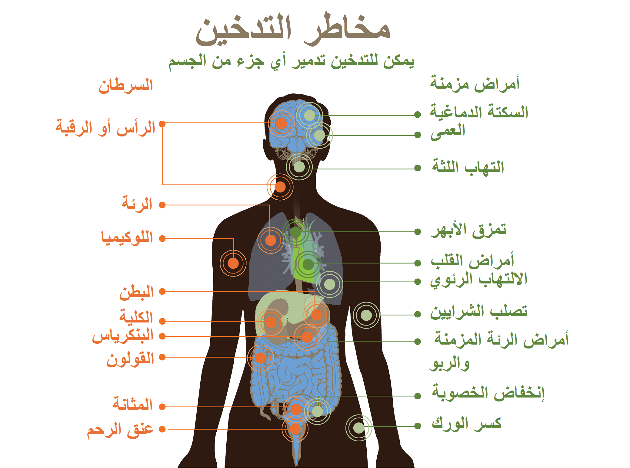 translated -smoking_can_damage_every_part_of_the_body.png into arabic